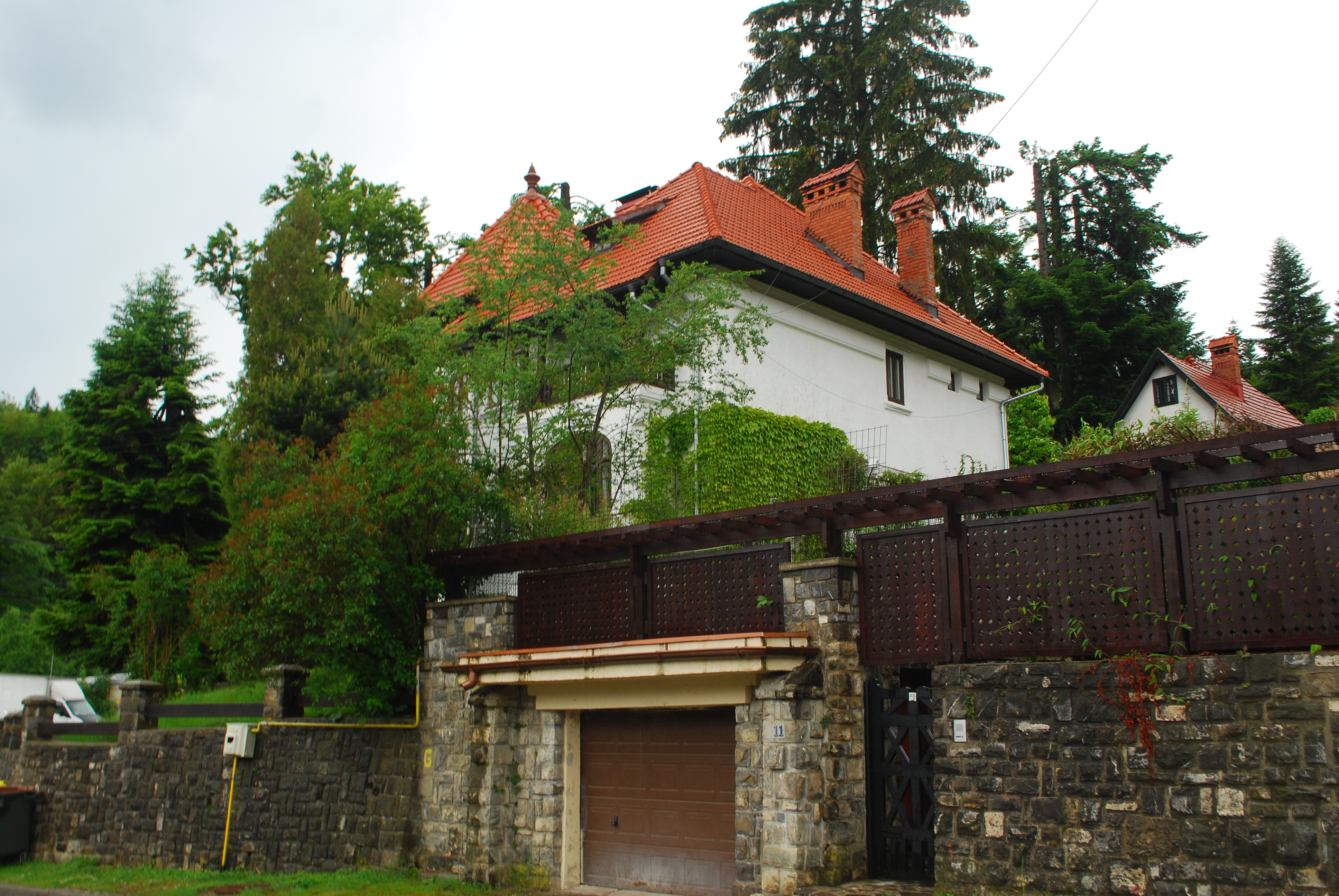 Alexandru Nabetide villa ("Mesteacănul" villa) in Sinaia, Prahova County, Romania